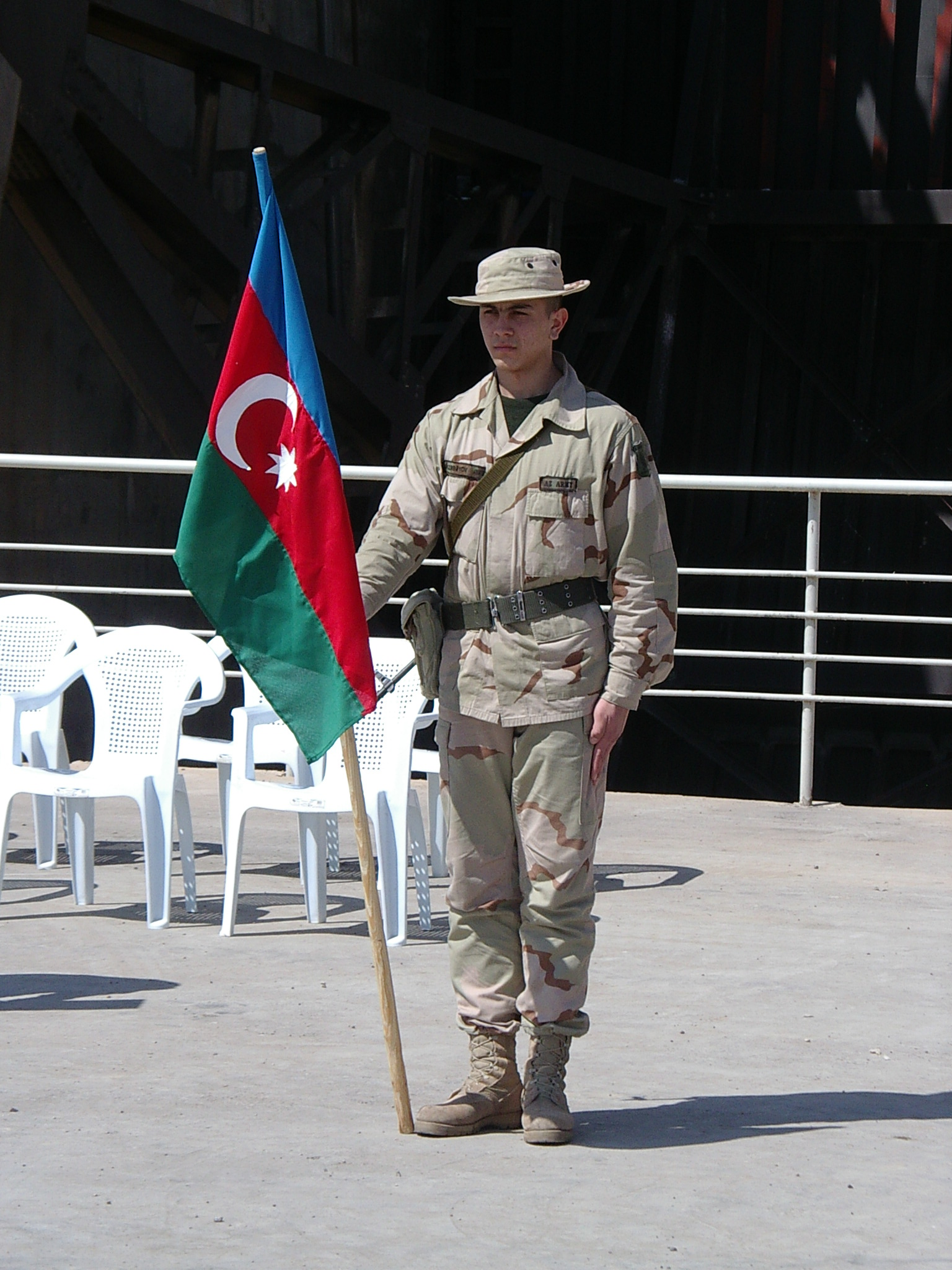 Azerbaijani soldier in Hadithah, Al Anbar, Iraq holding the flag.